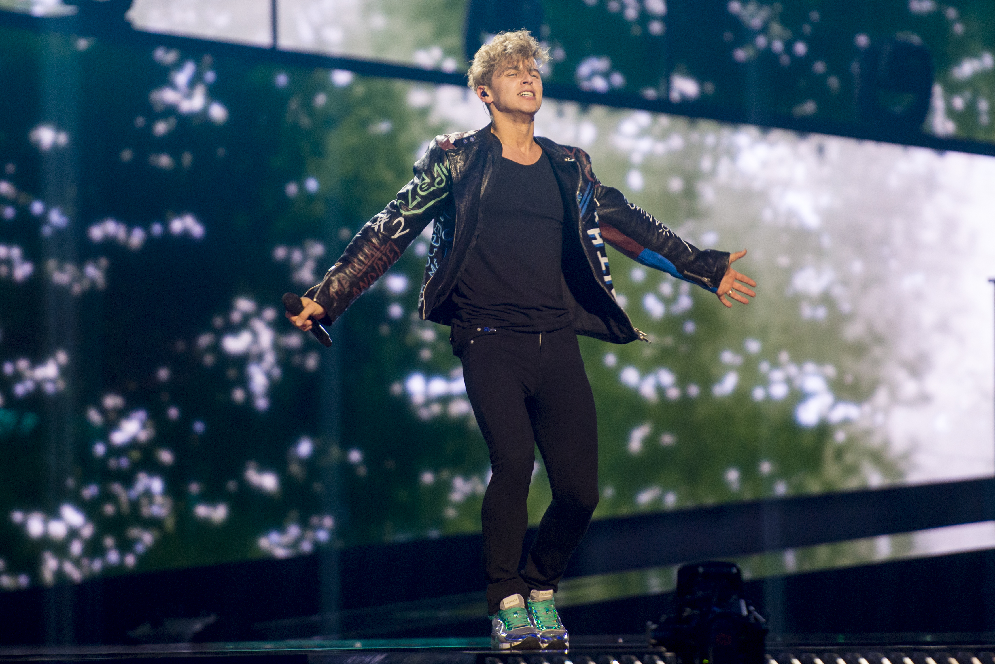 Donny Montell representing Lithuania with the song "I've Been Waiting for This Night" during a rehearsal before the second semi final of the Eurovision Song Contest 2016 in Stockholm. (Help translate this text)